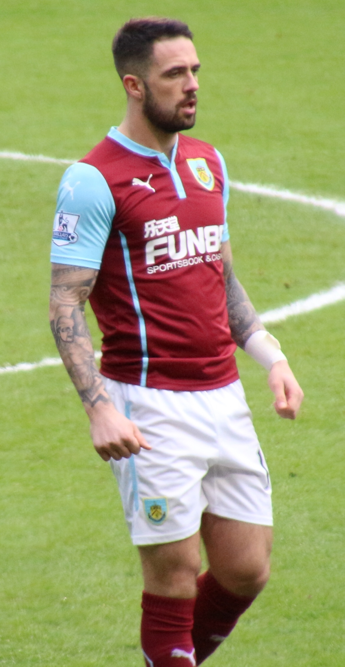 Chelsea 1 Burnley 1